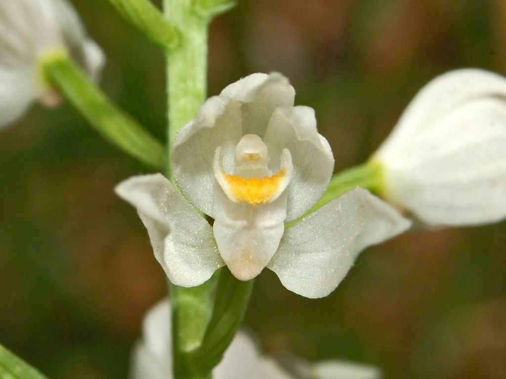 Cephalanthera longifolia - Piani di Praglia, Henova, Italy